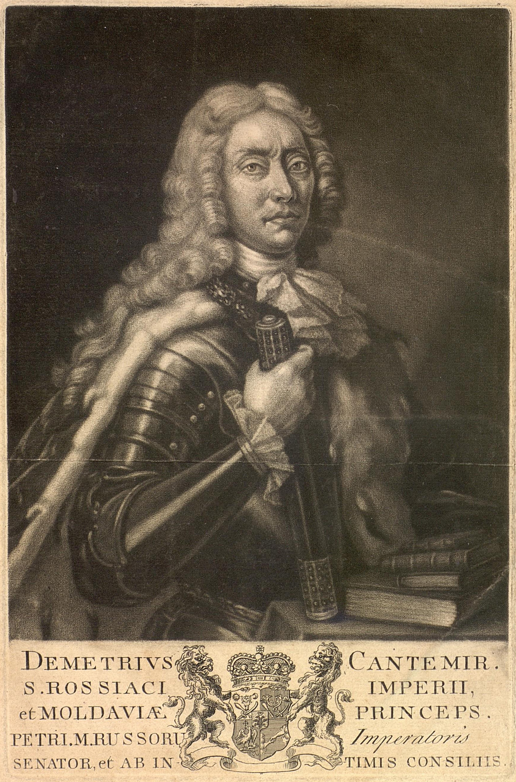 Portrait of Dimitrie Cantemir (1673–1723). From the english translation The History of the Growth and Decay of the Othman Empire (1734, London). Translation from Latin into English by N. Tindal, from the author's own manuscript. Printed for James, John, and Paul Knapton, at the Crown in Ludgate Street